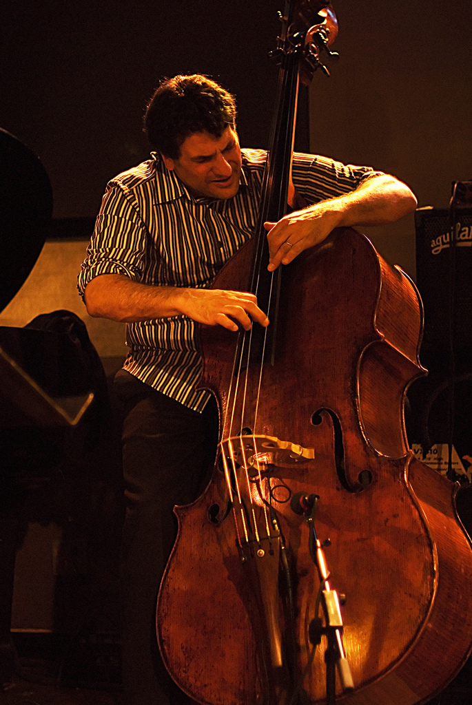 John Patitucci performing in March, 2007